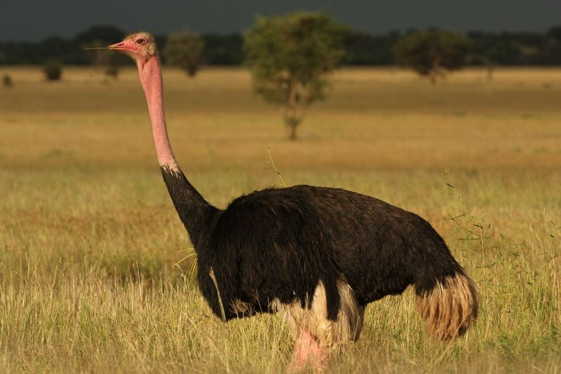 An Ostrich at Tarangire National Park, Tanzania.